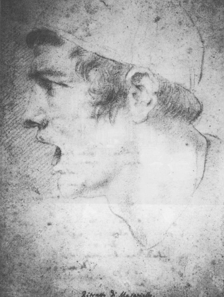 Portrait of Masaniello.